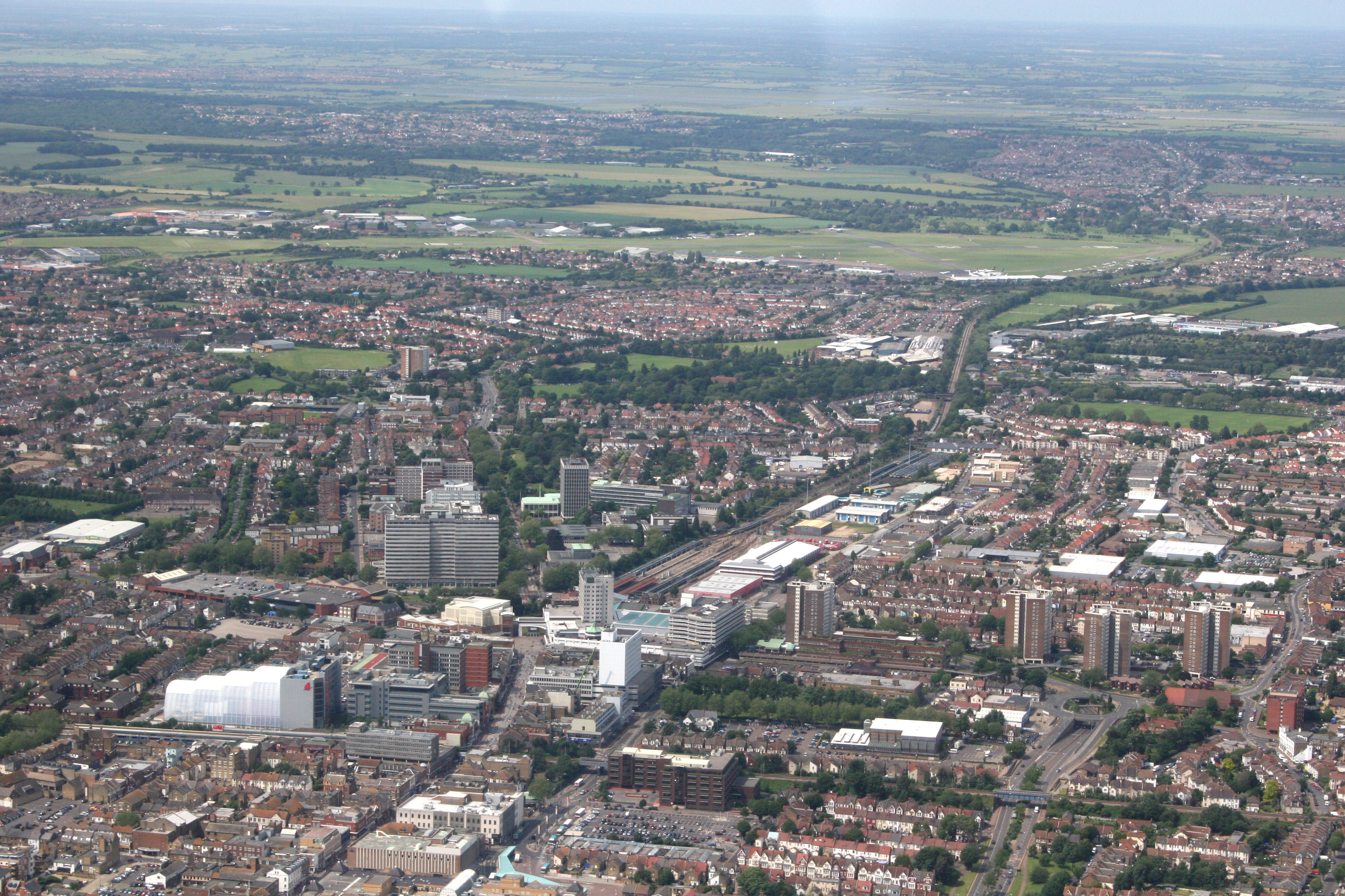 aerial photo of southend,essex.